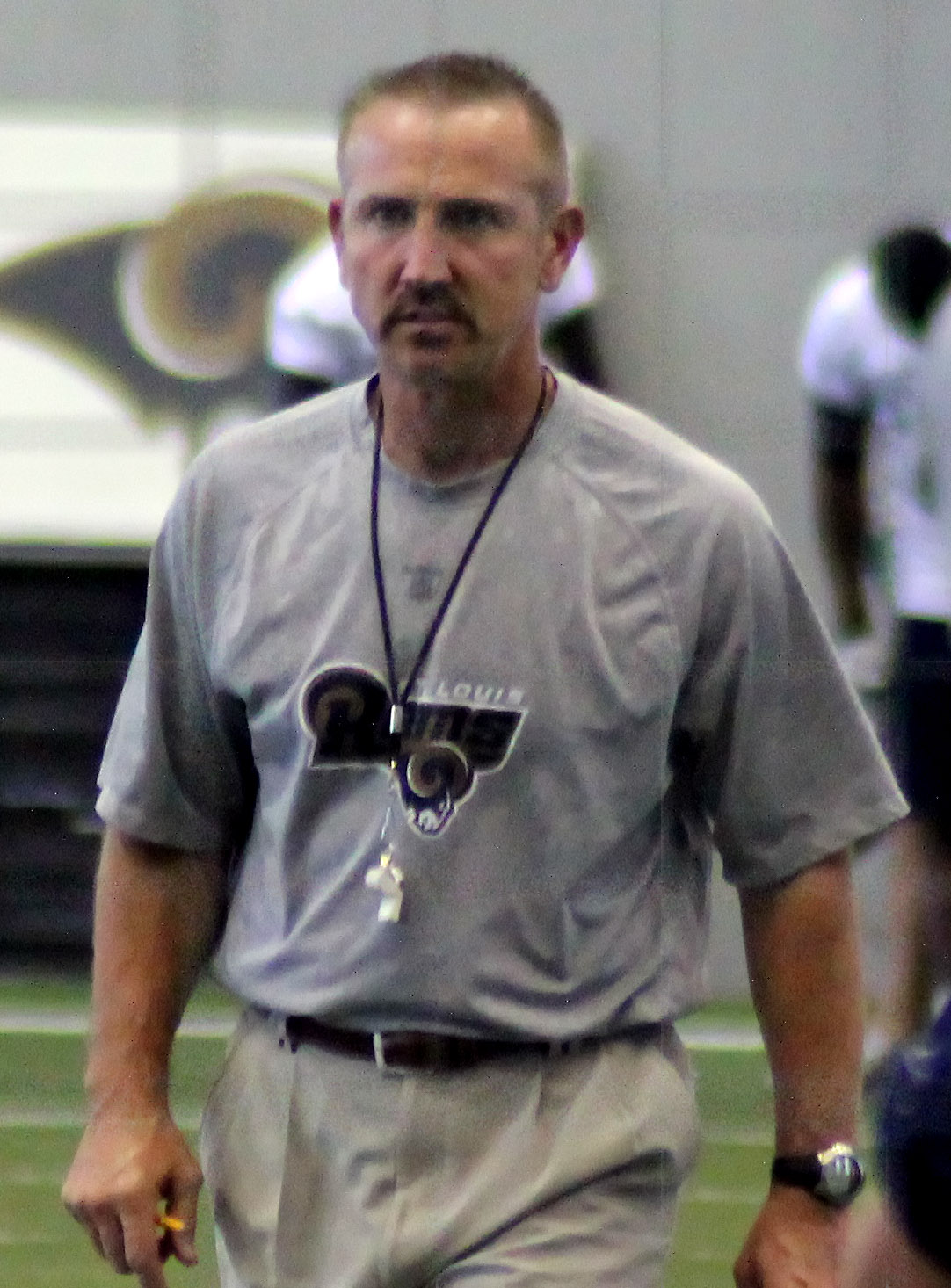 St.Louis Rams Head Coach Steve Spagnolo during training camp, 2011.